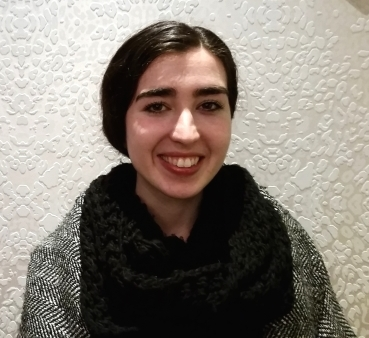 Viana Barzan Mikkelsen are a swedish film maker of documentaries